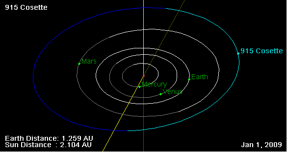 915 Cosette orbit, and his position on 01 Jan 2009 (NASA Orbit Viewer applet)